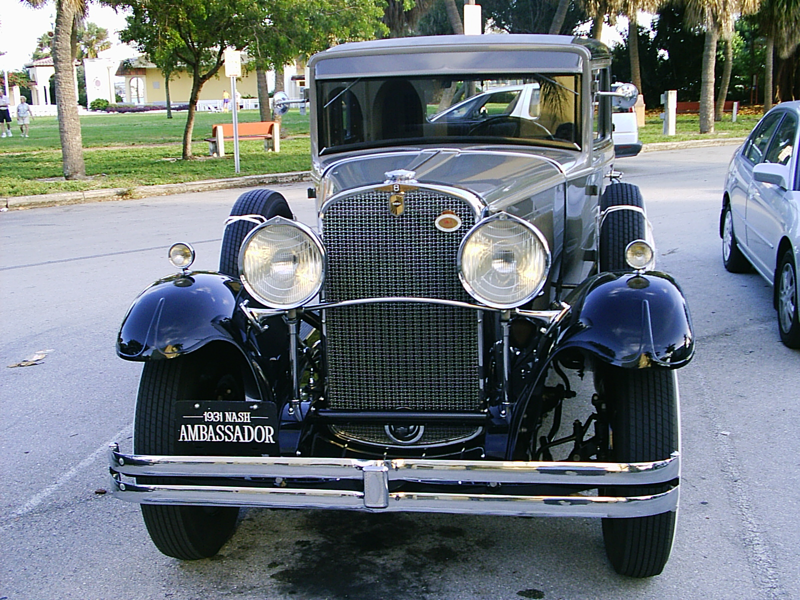 Nash Motor Company vehicle - 1931 Nash Ambassador sedan - full front view. Owner is Dale Adams from Ravenna, OH. Picture taken at an AACA (Antique Automobile Club of America) durability run rest stop in the city of Lake Worth, Florida